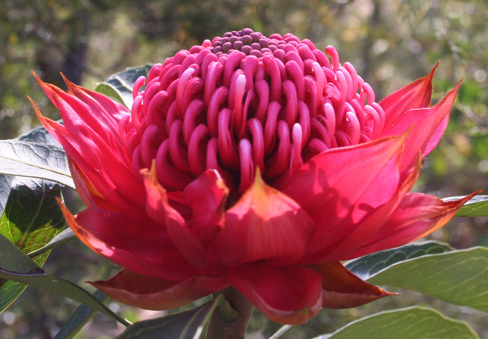 Telopea speciosissima inflorescence, Ingar Falls near Glenbrook